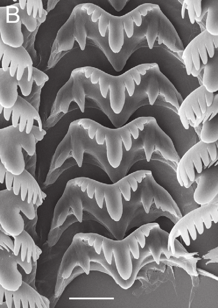 Radula of Marstonia comalensis, USNM 874926. Central teeth. Scale bar is 10 μm.